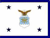 The flag for the Assistant Secretaries and General Counsel of the Air Force is the same design, material, and colors as the flag for the Under Secretary of the Air Force, except the fringe is blue.